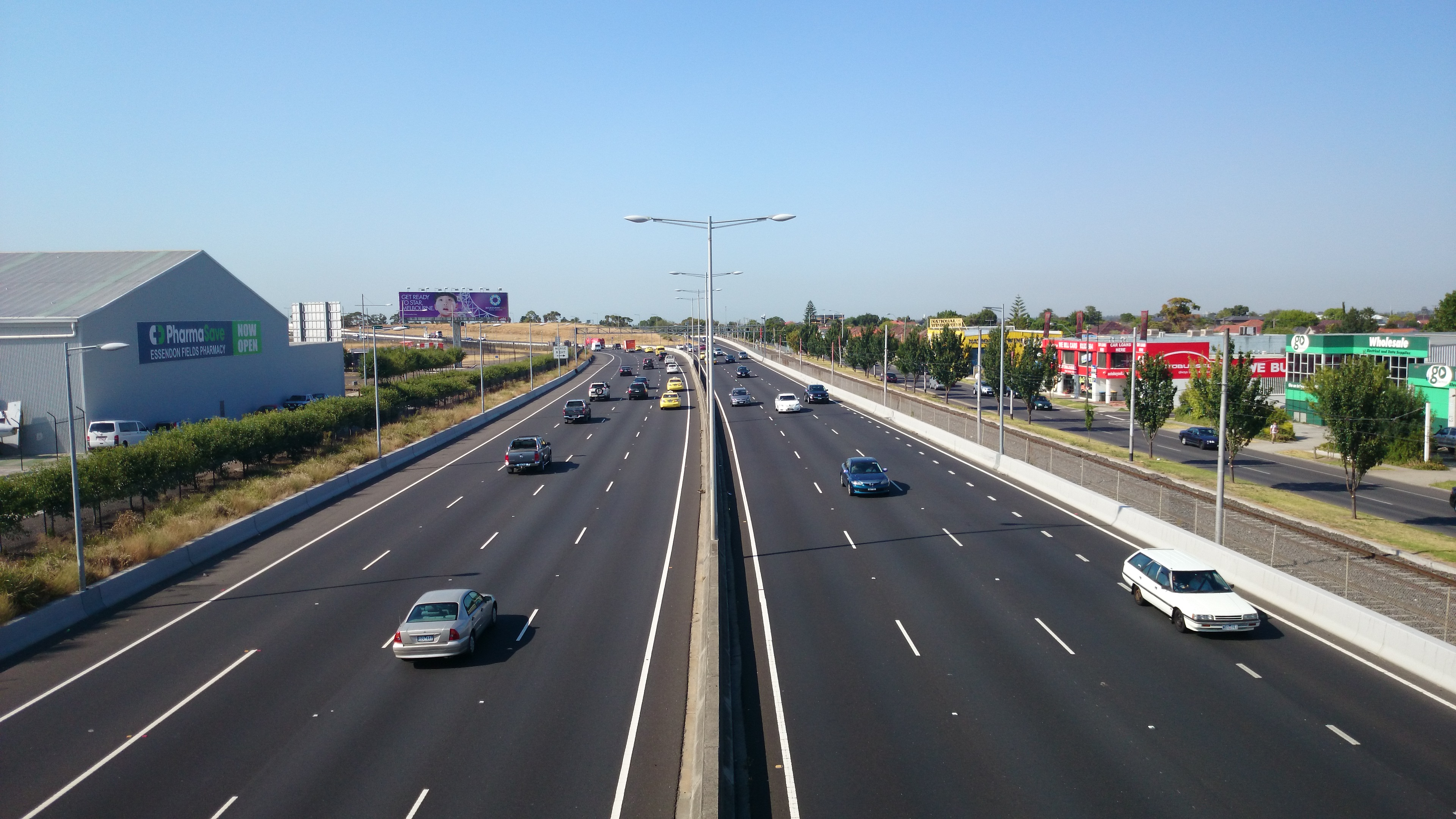 Looking south bound down the Tullamarine Freeway at Airport West.